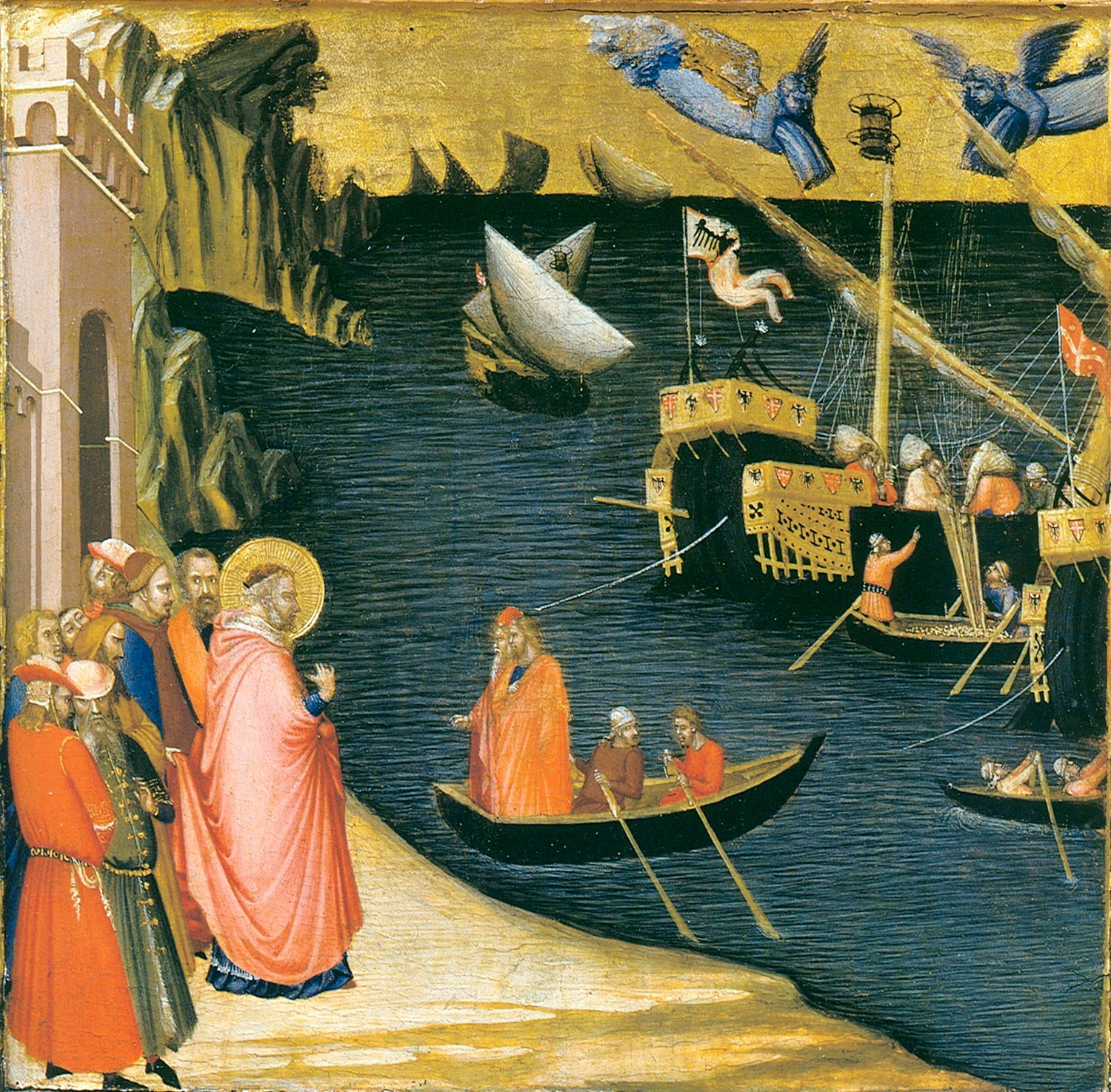 Lorenzetti_Amrogio_saint-nicolas-miraculously-filling-the-holds-of-the